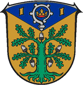 Coat of arms of Balduinstein